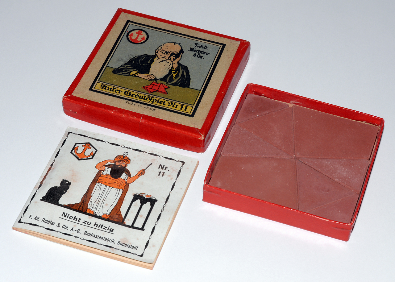 Anchor stone puzzle